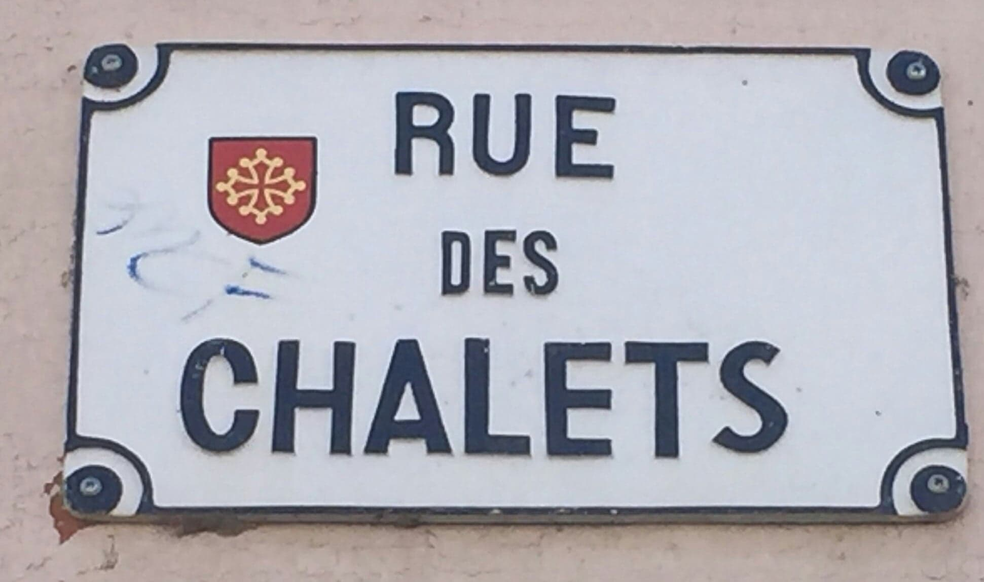 Street sign "Rue des Chalets" , Toulouse, France